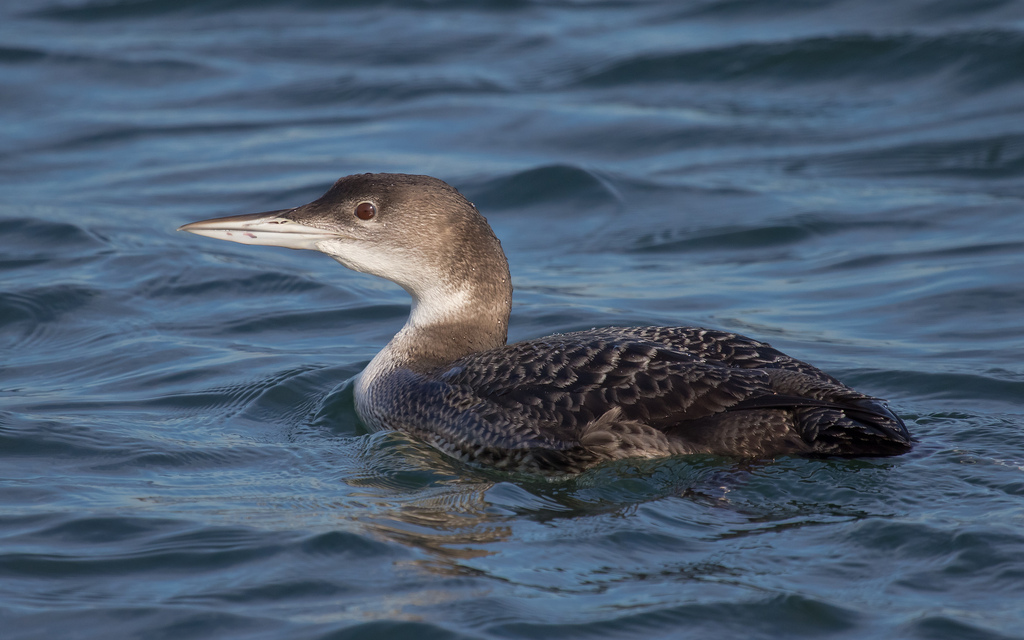 Photographed in Blaine, Washington, 18 October 2011, by Andrew Reding